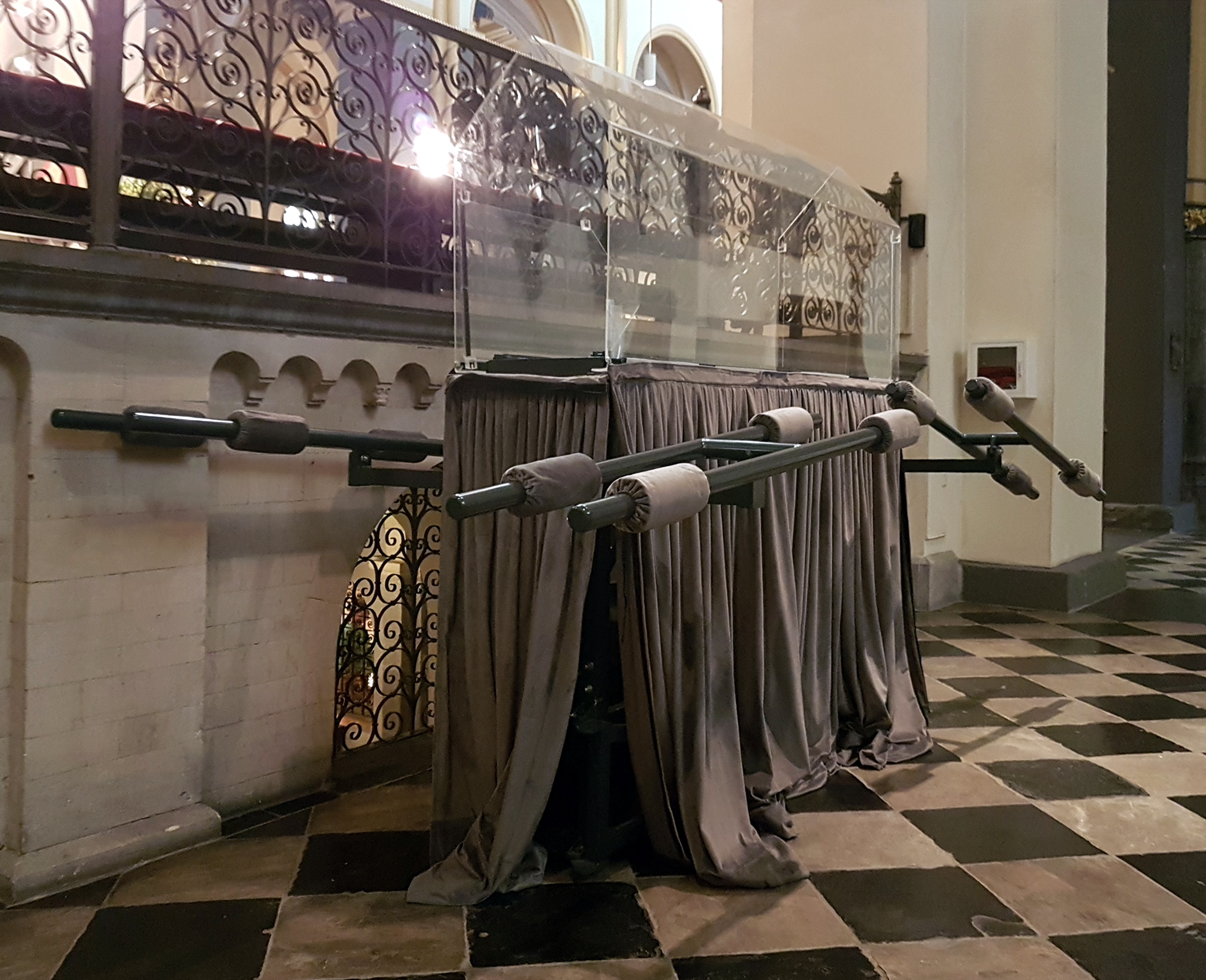 View of a processional litter in the north transept of the Basilica of Saint Servatius in Maastricht, Netherlands. The processional litter is used for carrying the 12th-century reliquary chest of Saint Servatius through the streets of Maastricht in the two processions during the 2018 Heiligdomsvaart ("Relics Pilgrimage"). The history of the seven-yearly Maastricht Heiligdomsvaart goes back to the Middle Ages. The first 'modern' version of this ten-day catholic pilgrimage took place in 1874. The 2018 Heiligdomsvaart was the 55th modern edition.